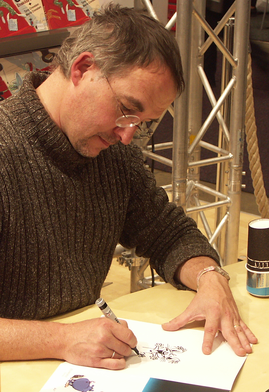 Belgian cartoonist Janry at the 2008 Gothenburg Book Fair.